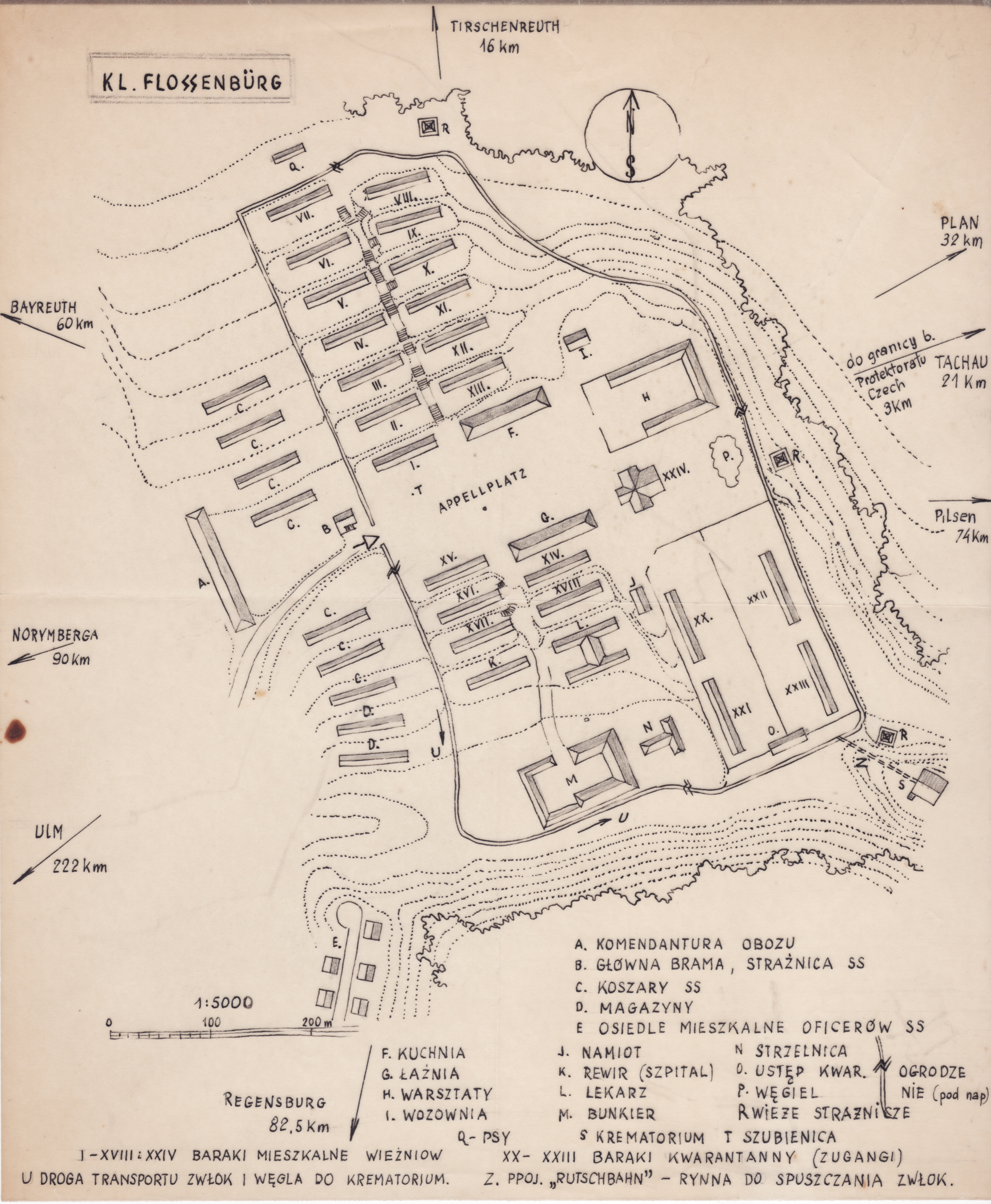 Hand drawn plan of the Flossenbürg concentration camp by Stefan Kryszak the survivor of the camp. Drawing done in ink on tracing paper. Znak/LabelPolishEnglishAKomendatura obozuCamp headquarter BGłówna brama, strażnica SSMain gate, SS watchtowerCKoszary SSSS barracksDMagazynyMagazinesEOsiedle mieszkaniowe oficerów SSHousing for SS officersFKuchniaKitchenGLaźniaBathHWarsztatyWorkshopsIWozowniaCoach houseJNamiotTentKRewir (Szpital)Sickbay (Hospital)LLekarzDoctorMBunkierBunkerNStrzelnicaShooting rangeOUstęp Kwar.ToiletsPWęgielCoalRWieże strażniczeWatchtowerQPsyDogsSKrematoriumCrematoriumTSzubienicaGallowsUDroga transportu zwłok i węgla do krematoriumRoad for moving corpses and coal to the crematoriumZPpoj. "Rutschbahn" - Rynna do spuszczania zwłok"Rutschbahn" - Gutter for sliding corpsesI-XVII, XXIV Baraki mieszkalne więźniówPrisoner barracksXX-XXIIIBaraki kwarantanny ("Zugangi")Quarantine barracks ("Zugangi")Ogrodzenie (pod napięciem) Electric fence